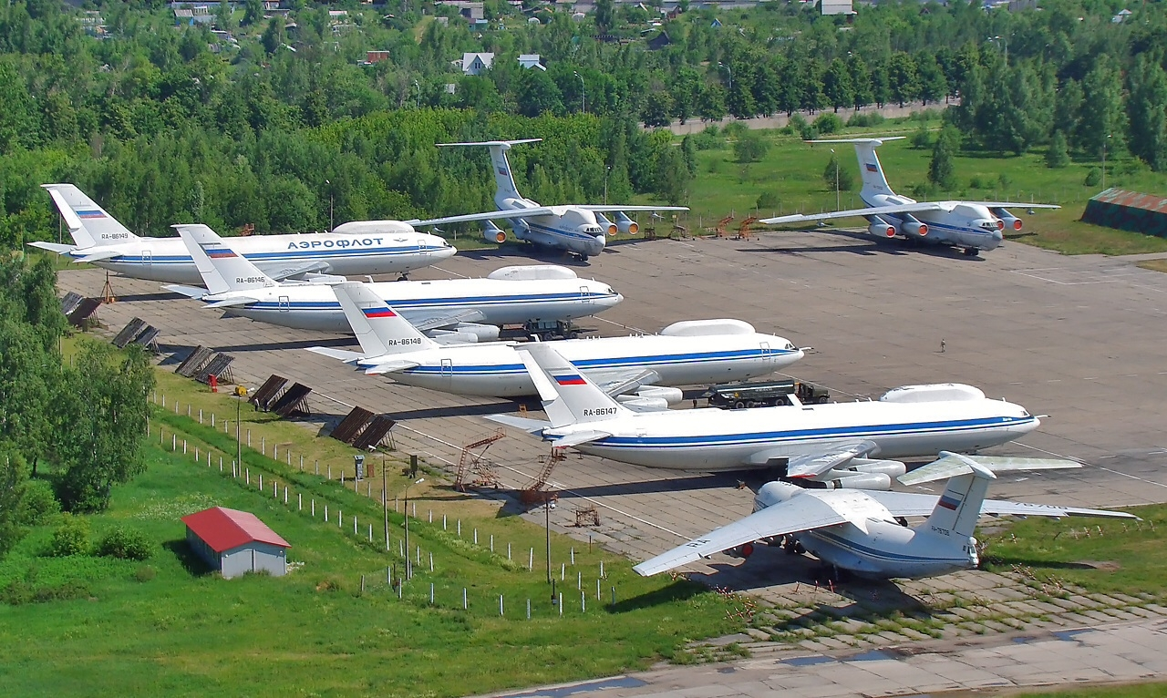 4 Ilyushin Il-86VKP at Chkalovsky